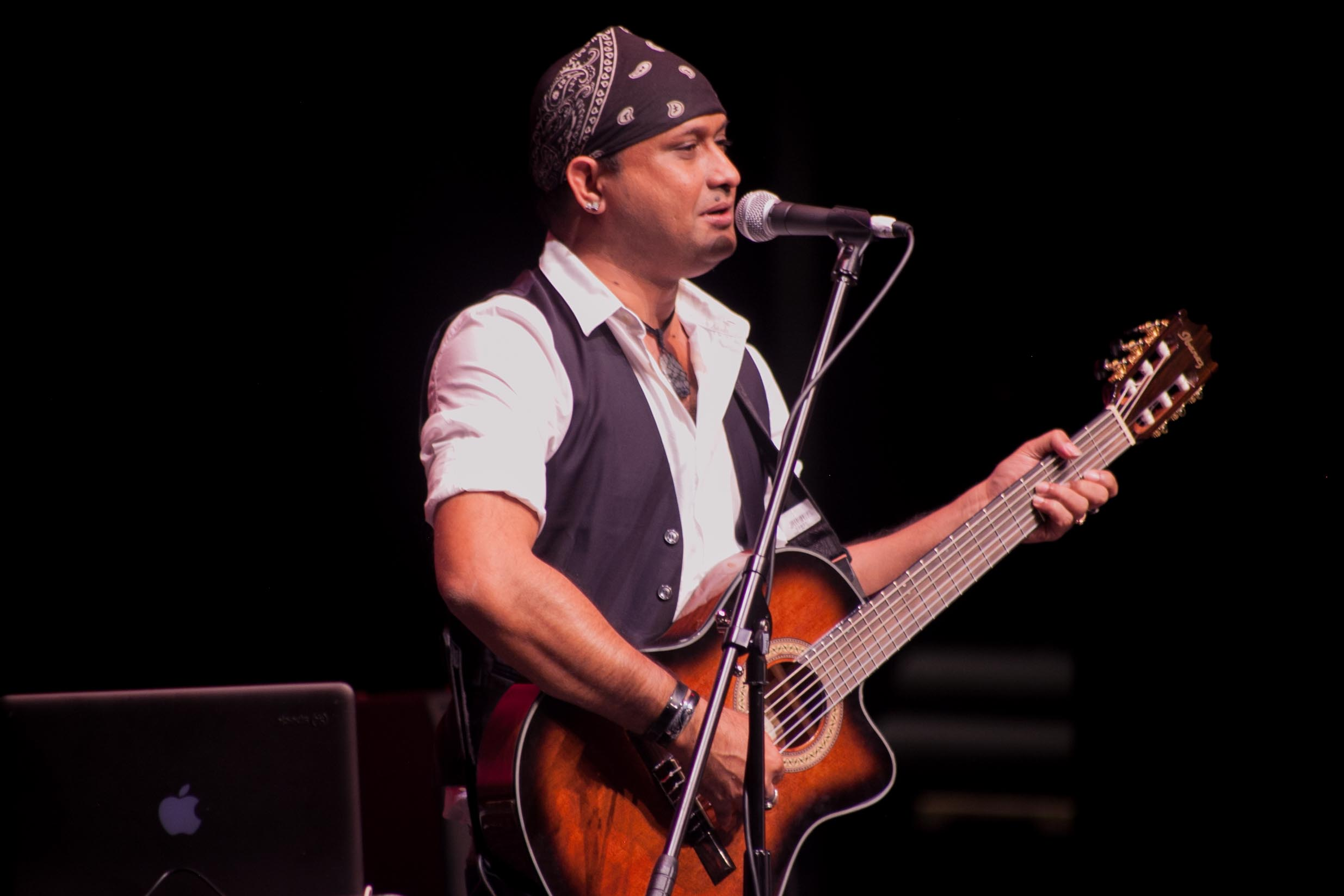 S I Tutul performing in BABA event at De Anza College in Cupertino, CA